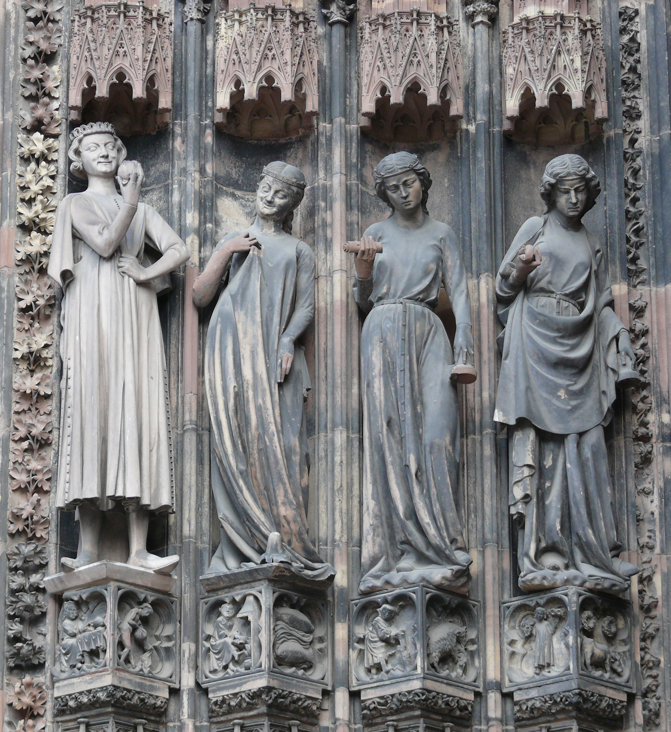 Strasbourg Cathedral or the Cathedral of Our Lady of Strasbourg (French: Cathédrale Notre-Dame-de-Strasbourg